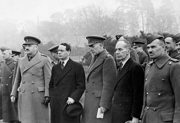 The Right Honourable Malcolm MacDonald visiting units of the Canadian Army before taking up the appointment of British High Commissioner in Canada. England, 1941.